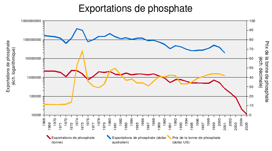 Graphic showing phosphate exportations of Nauru